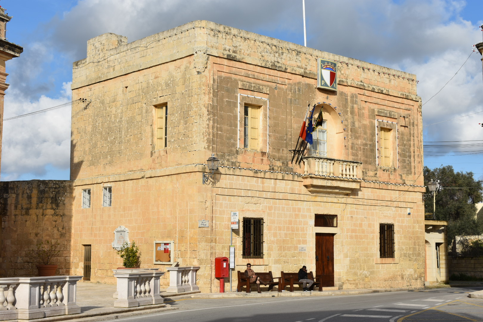 Dar id-Djalogu (Dialogue House)